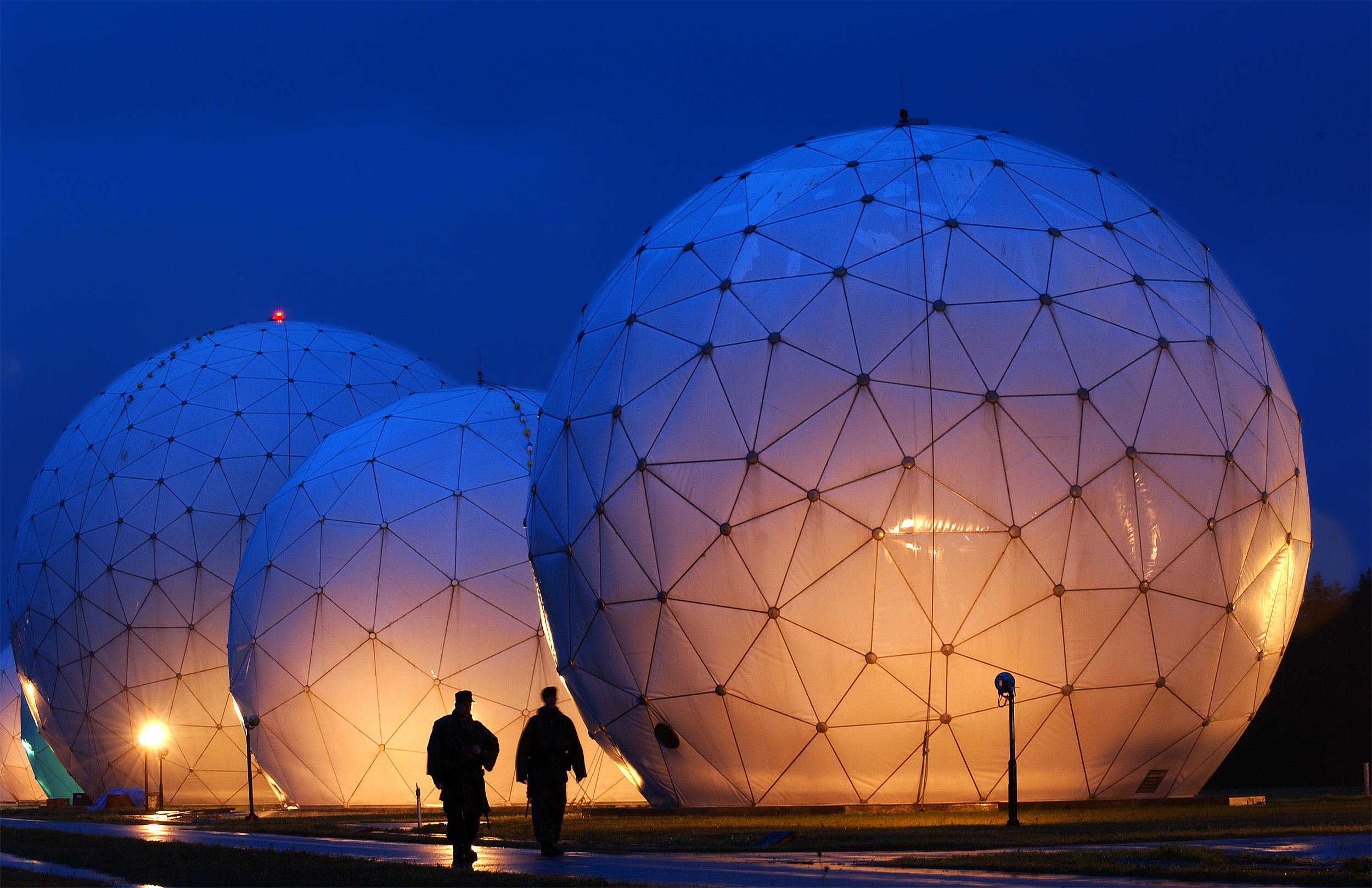 Boatswain's Mate Second Class Donald Rouse and Air Force Airman John Yorde make early morning security rounds by the radomes at the Cryptologic Operations Center, Misawa, Japan.